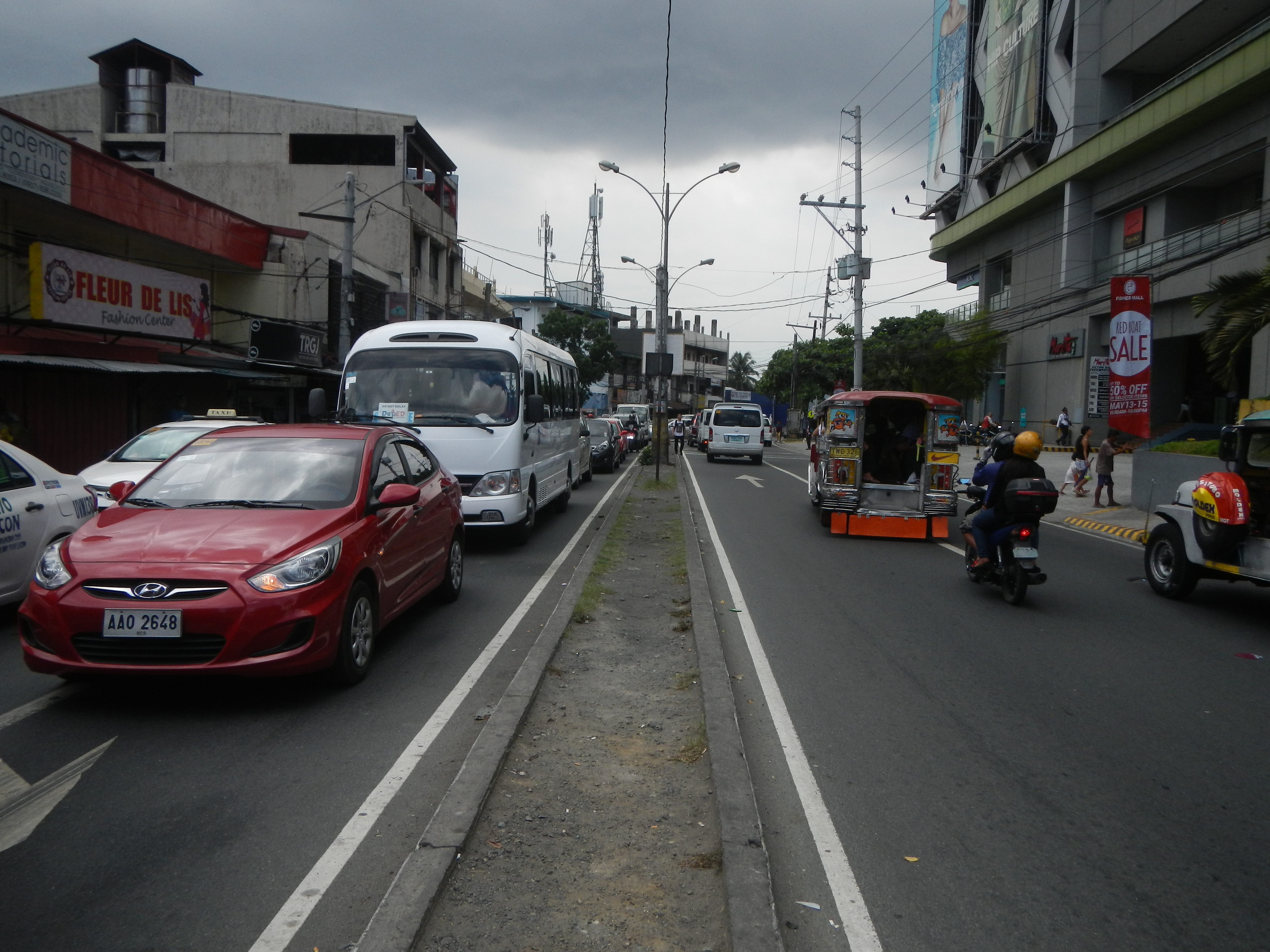 Fisher Mall Roosevelt Avenue, Quezon City corner Quezon Avenue Heroes Hills, Legislative districts of Quezon City District 6, Barangays of Quezon City Santa Cruz, beside Mariblo, District I, Area IV, San Francisco del Monte, from and beside Paligsahan from Masambong, Quezon City.